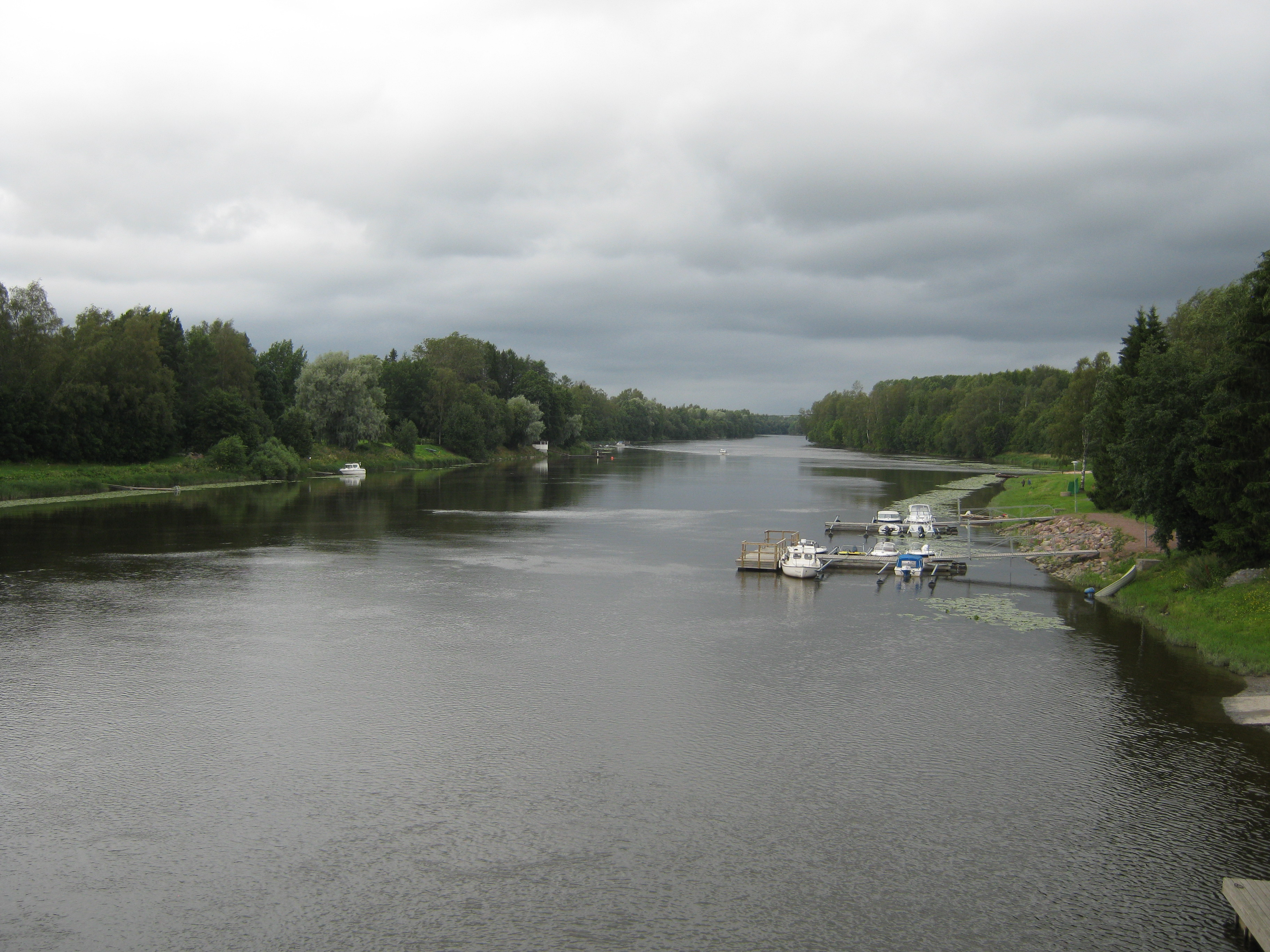 River Kokemäenjoki downstream at Ulvila, Finland.